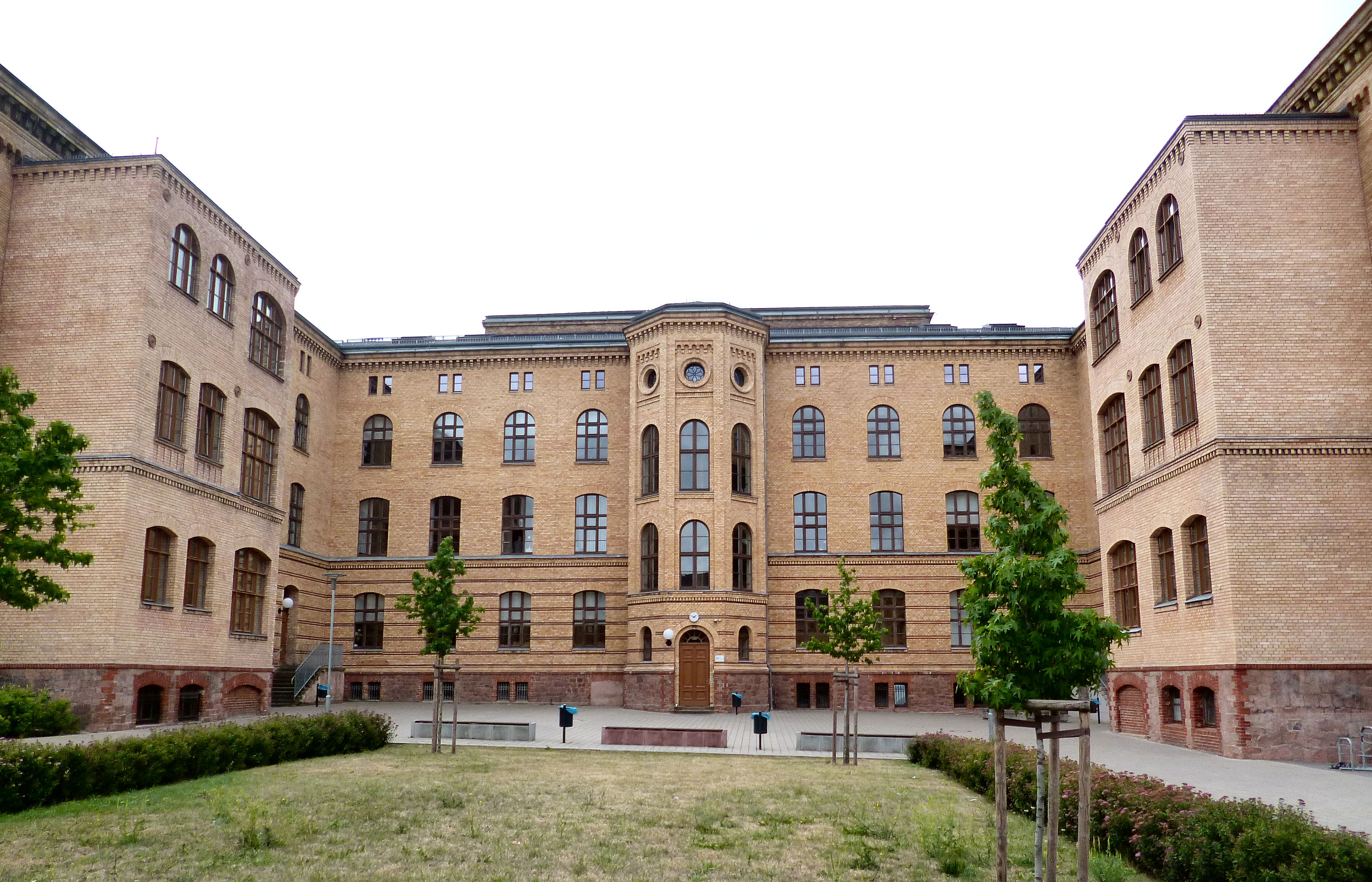 Former Stadtgymnasium, built in 1867/68, Adam-Kuckhoff-Strasse No. 37 in Halle (Saale)